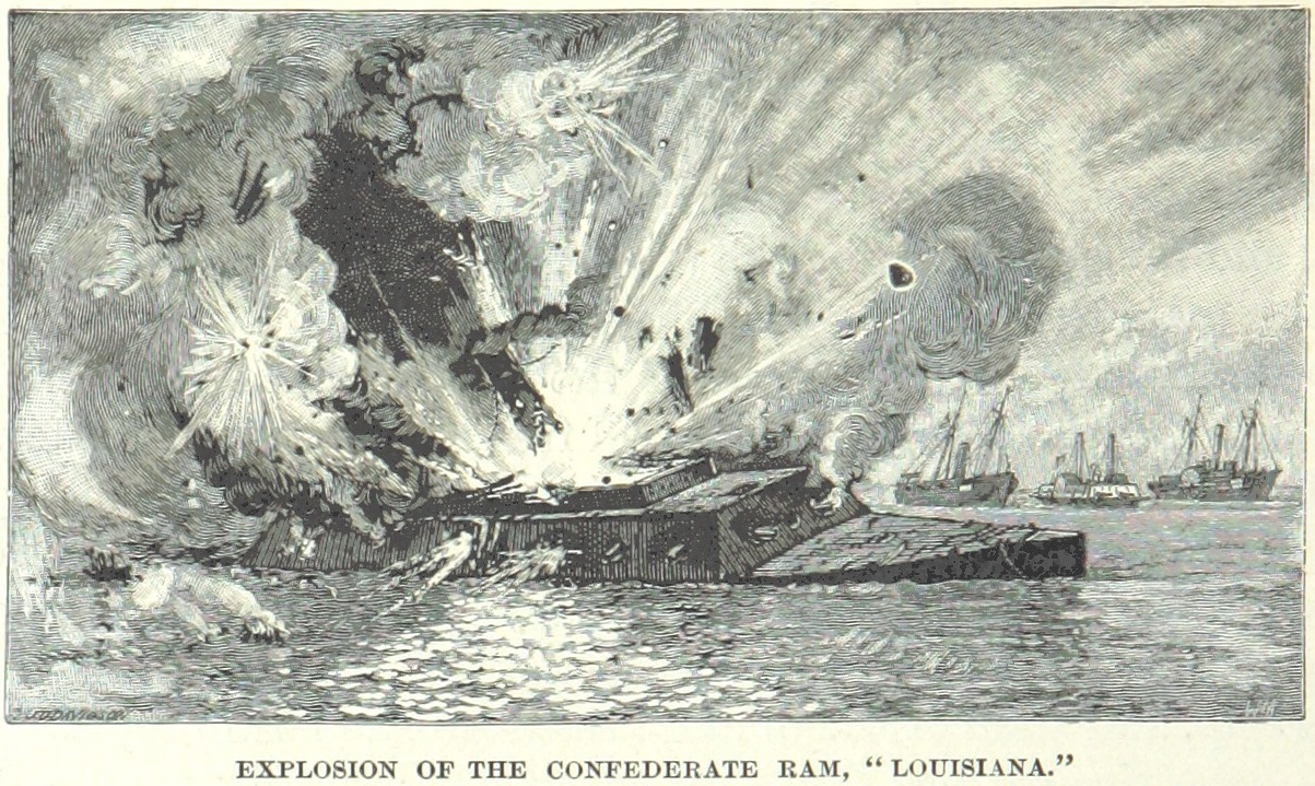 The Confederate ironclad CSS Louisiana explodes after her crew set her on fire.